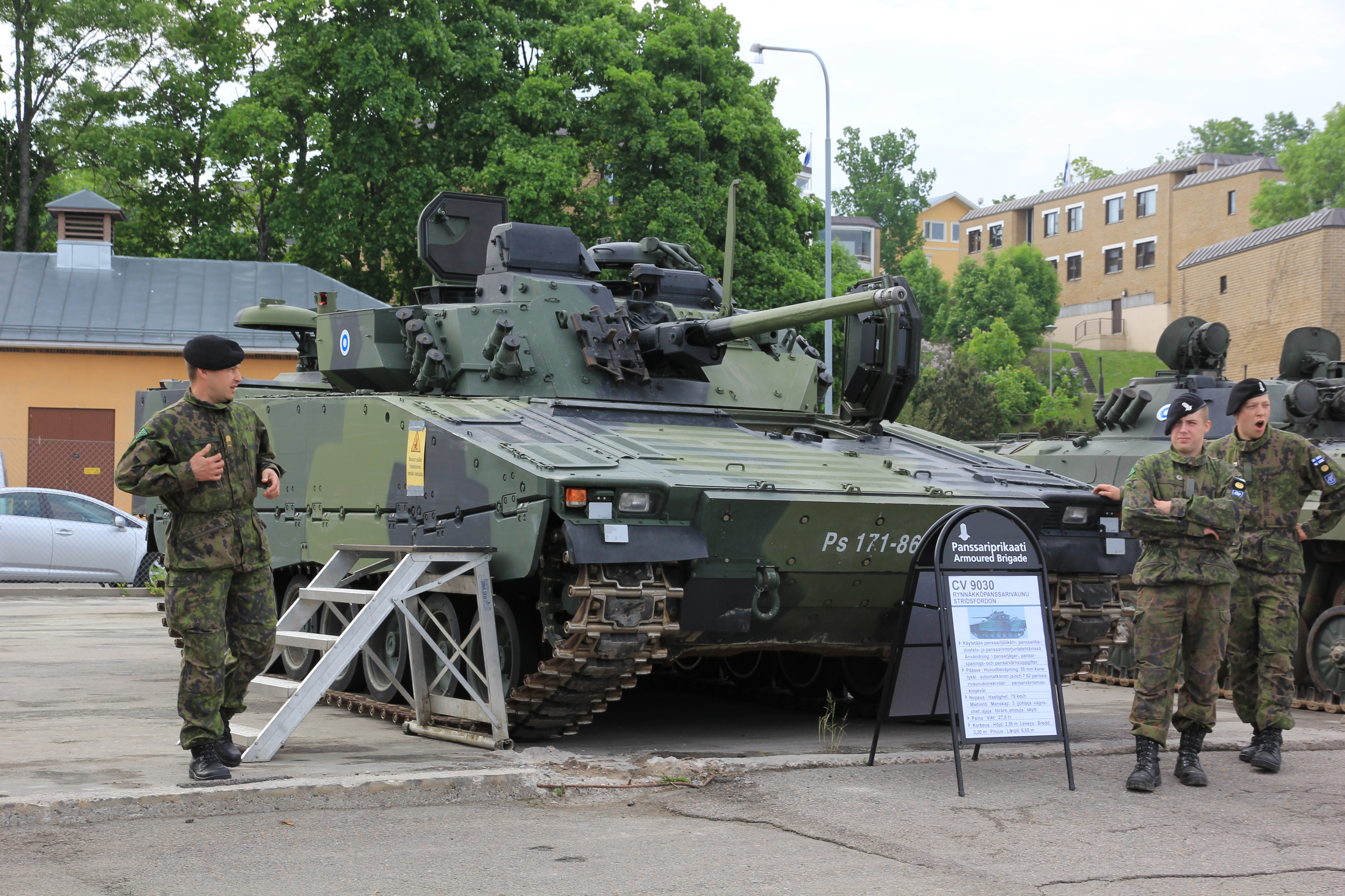 CV 90 infantry fighting vehicle (Ps 171-86) on display during Finnish Defence Forces 2013 Flag day in Ekenäs harbour.